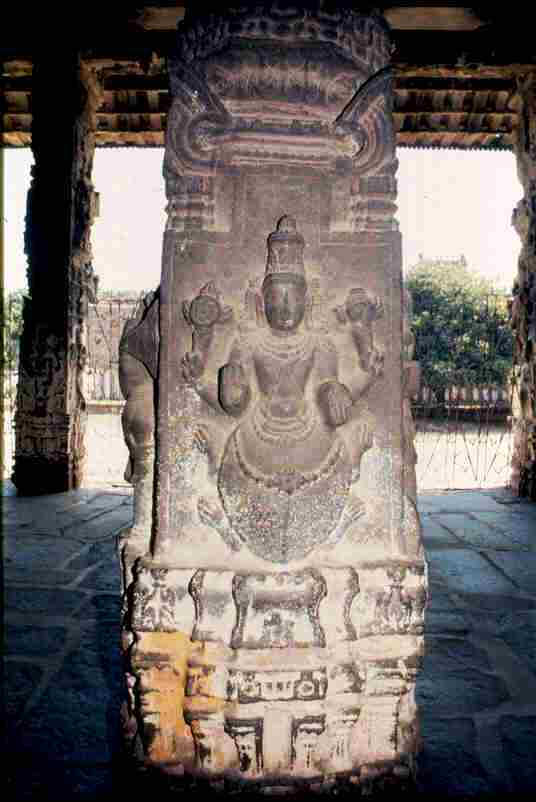 Kurma avatar, Kanchipuram, Tamil Nadu, India